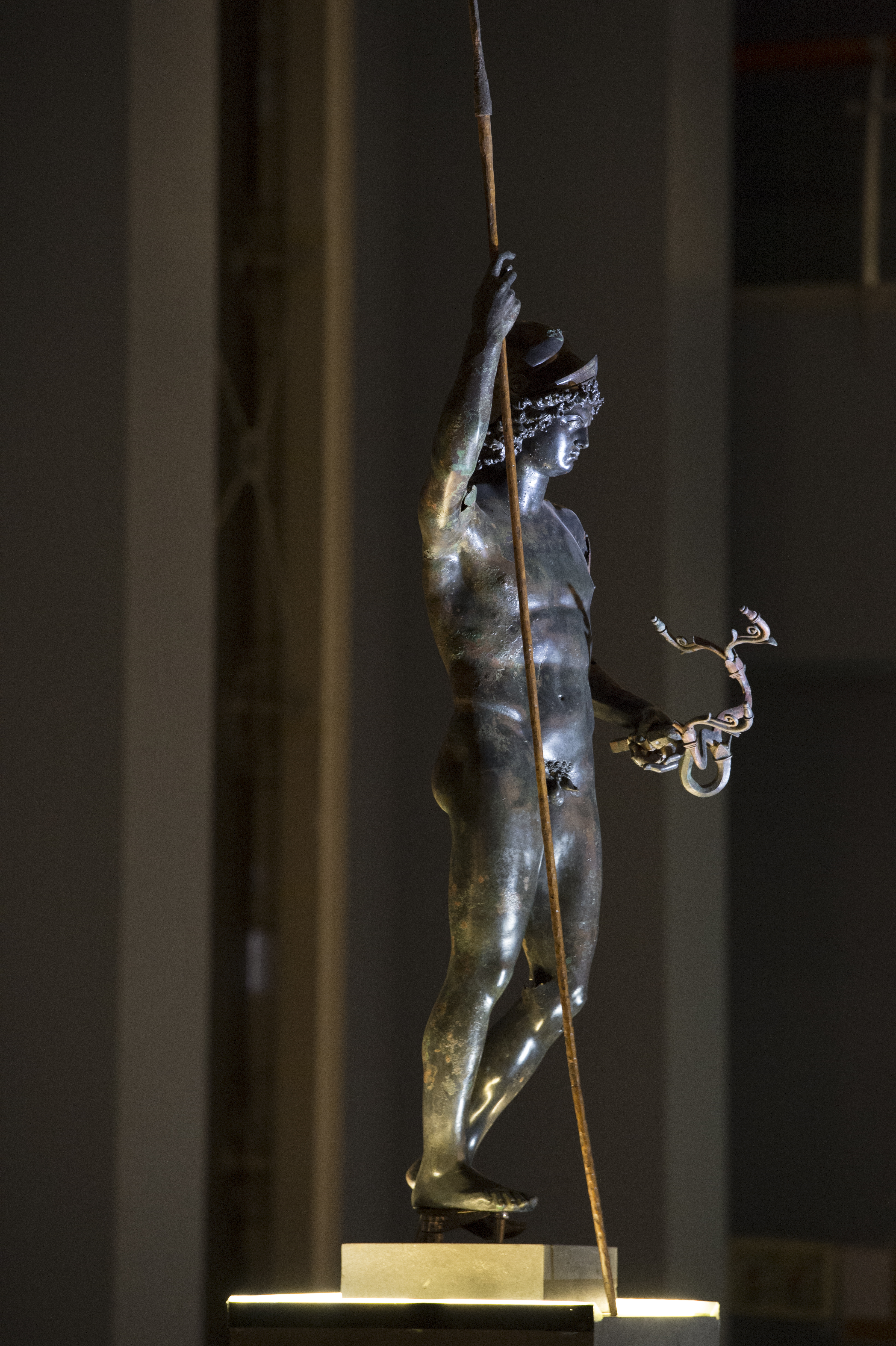 On a site of the Centro di Conservazione Archaeologica one can read "A bronze statue of Mars, the Roman god of war, was found in the ancient city of Zeugma in the course of an excavation campaign in 1999-2000. The statue represents one of the most interesting and spectacular finds from this city on the banks of the Euphrates river in southern Anatolia. Conservation treatment of the statue offered academics and technicians a chance to study ancient working and casting techniques; at the same time it posed a technical challenge to repair the metal's serious condition of deterioration. The treatment involved the use of endoscopic studies, baths to stabilize the material, and scientific investigations of the casting earth. A new steel support now permits a view of the statue in the round." I have had the pleasure of seeing it often, first in the Archaeological Museum, where it was lit superbly and allowed for fine pictures, though from a distance, then in the same museum, but more randomly in a room with distracting mosaics around, then in the new Zeugma Mosaic Museum, where it was badly lit and put of a silly column. I have not seen it since, and show pictures of early and later date.